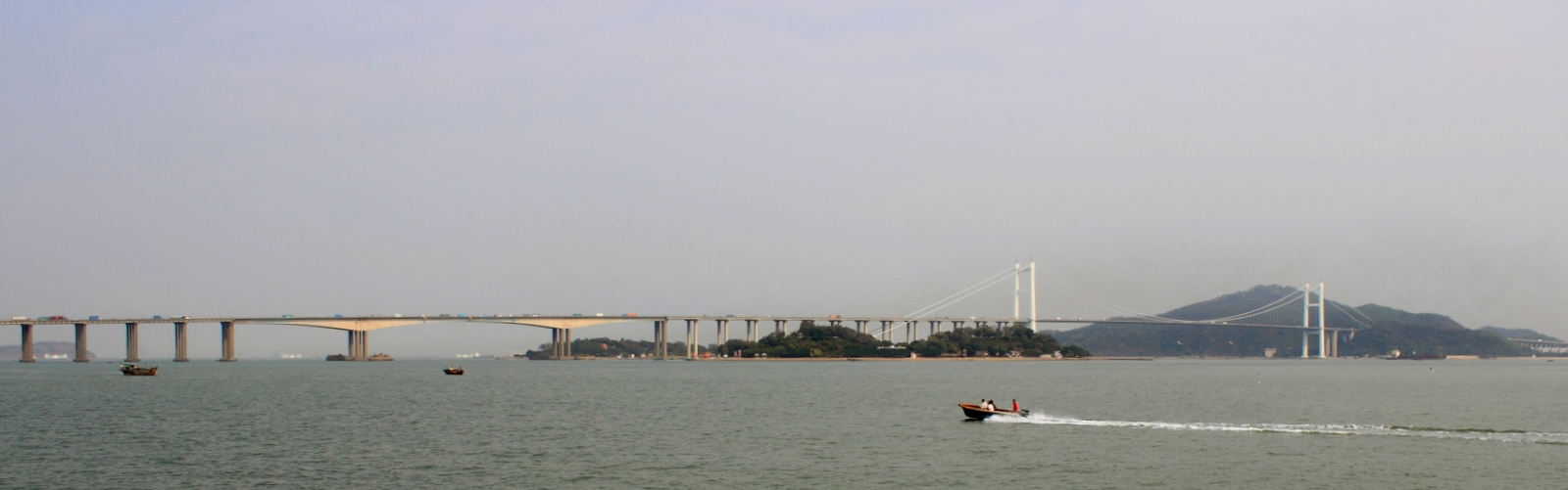 Humen Bridge in Dongguan